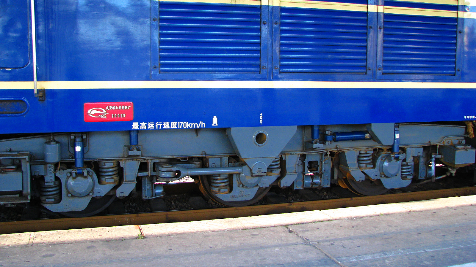 The bogie of a China Railways DF11 diesel locomotive